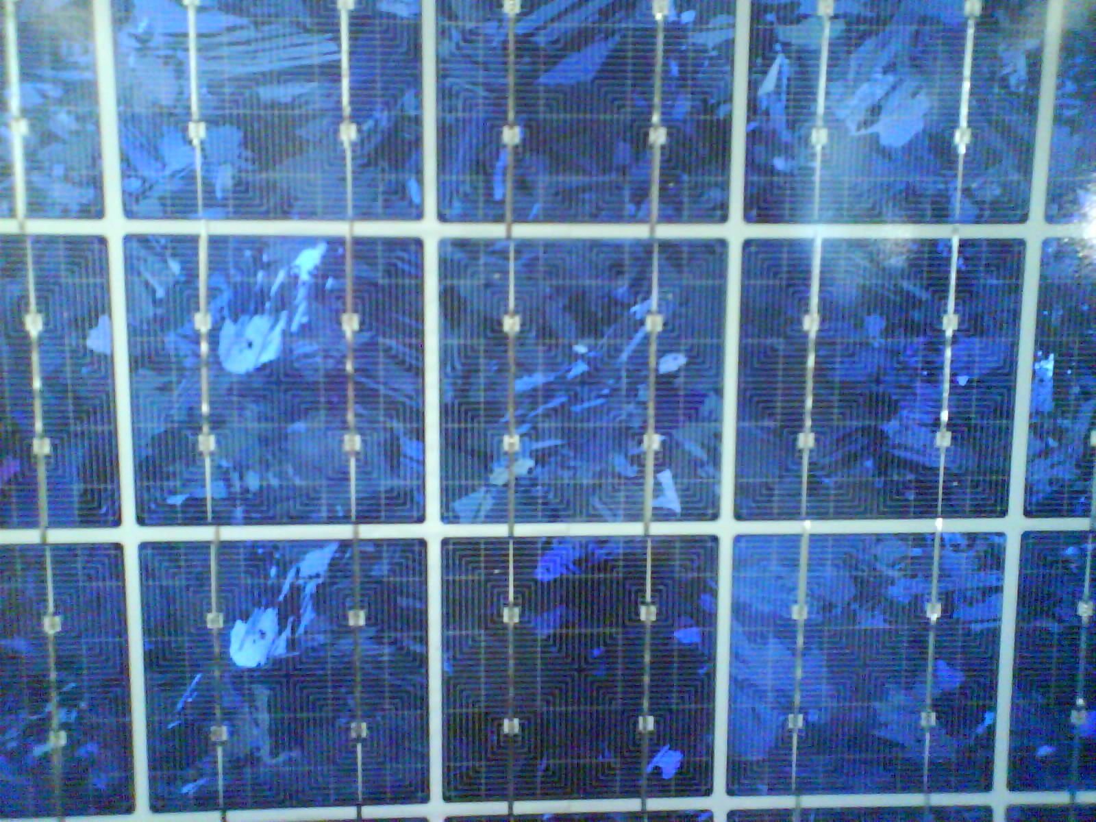 Silicon photovoltaic array